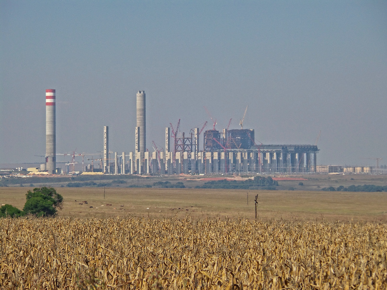 Kusile Power Station, under construction in 2014, in western Mpumalanga, South Africa, as seen from the N4 freeway